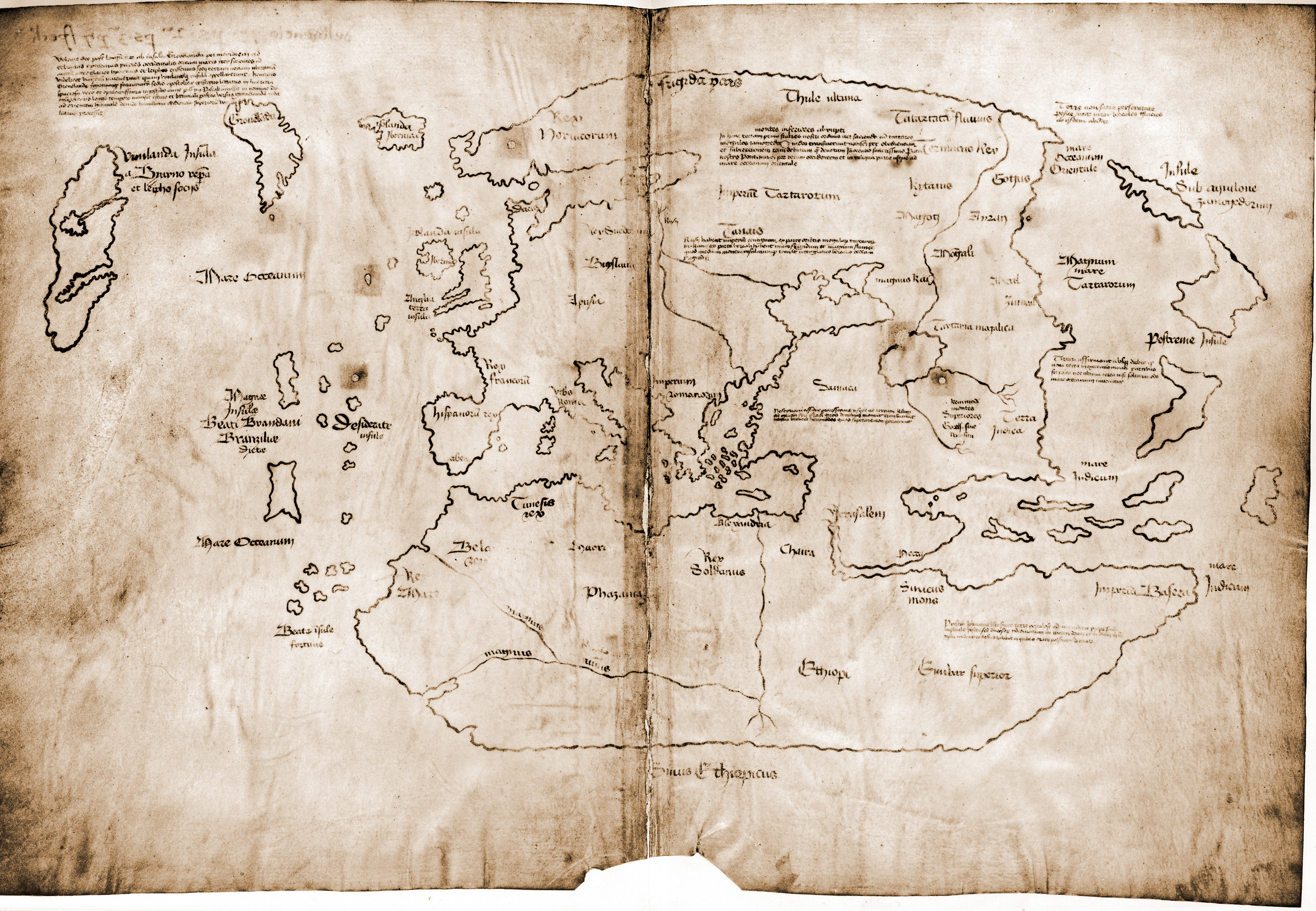 The Vinland map / chart is purportedly a 15th century Mappa Mundi, redrawn from a 13th century original. Drawn with black ink on animal skin, if authentic the map is the first known depiction of the North American coastline, created before Columbus' 1492 voyage. The upper left caption reads: “By God's will, after a long voyage from the island of Greenland to the south toward the most distant remaining parts of the western ocean sea, sailing southward amidst the ice, the companions Bjarni and Leif riksson discovered a new land, extremely fertile and even having vines, ... which island they named Vinland.” Most scholars and scientists who have studied the map have concluded that it is a fake, probably drawn on old parchment in the 20th century.